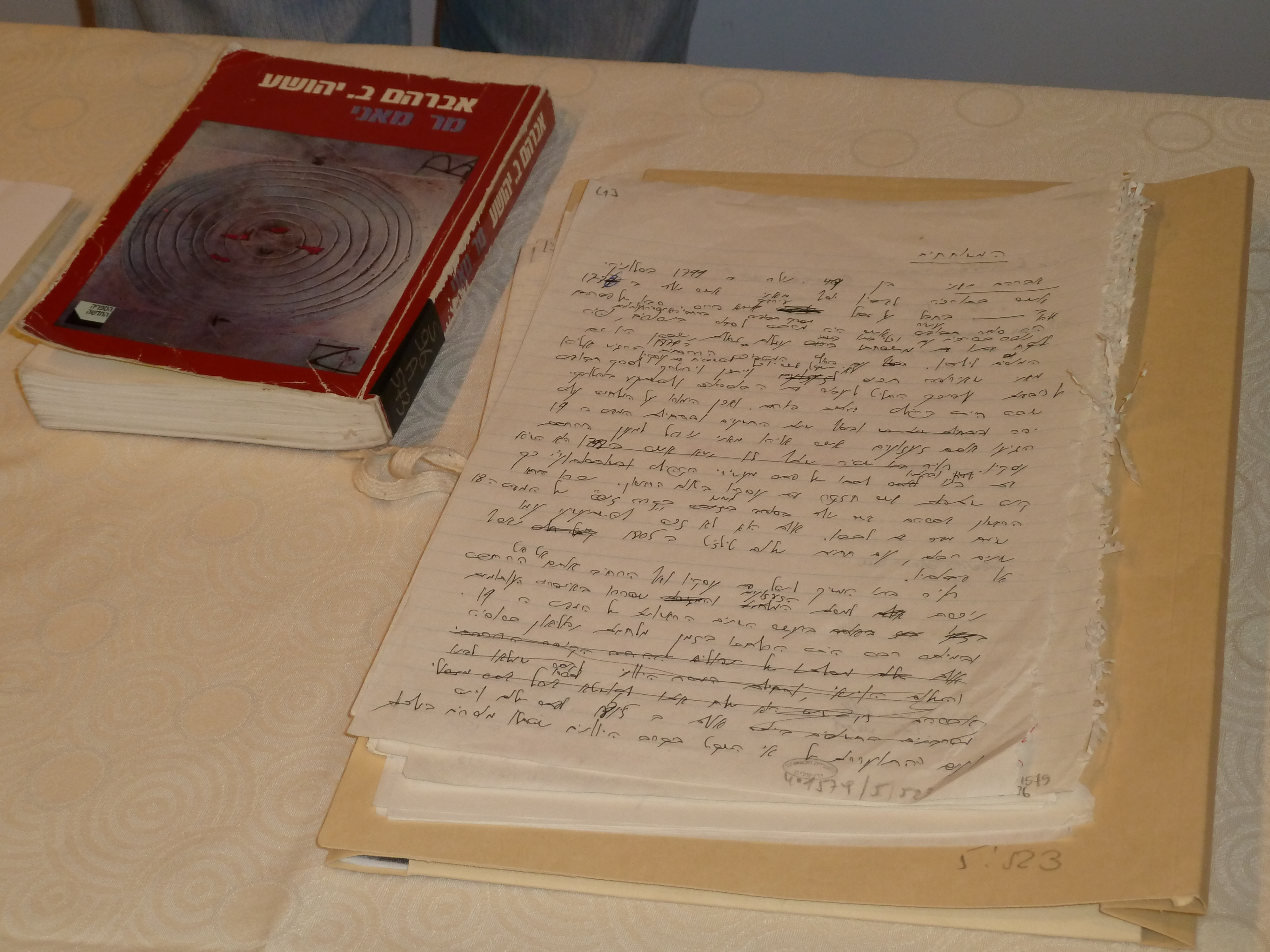 GLAM National Library of Israel Tour